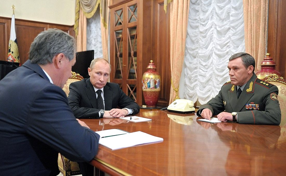 Sergey Shoigu, Vladimir Putin, Valery Gerasimov (2012-11-09)